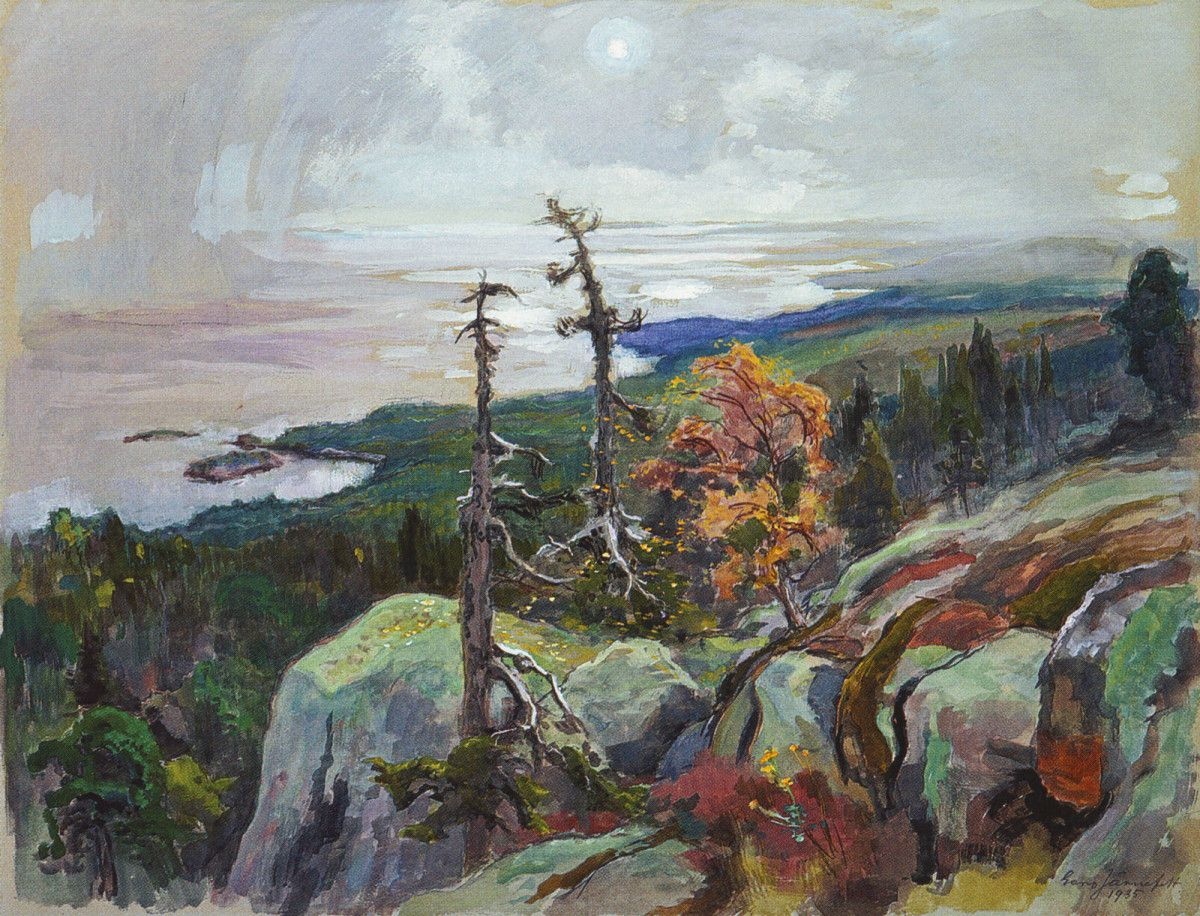 Koli